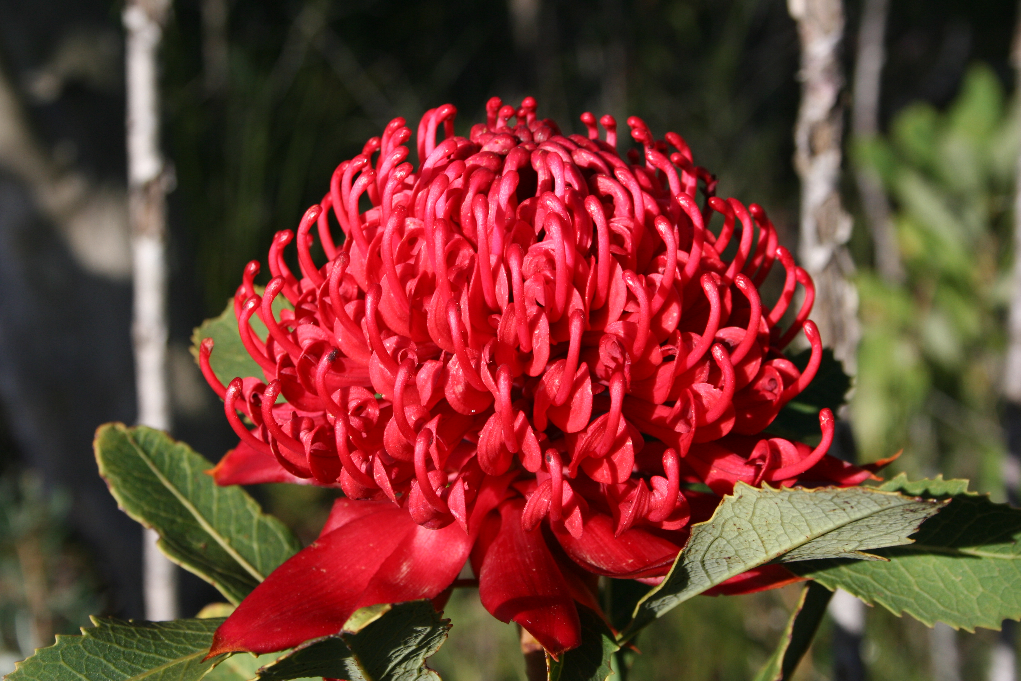 Telopea speciosissima inflorescence, past its best, fire trail off Bundeena Drive, Royal National Park